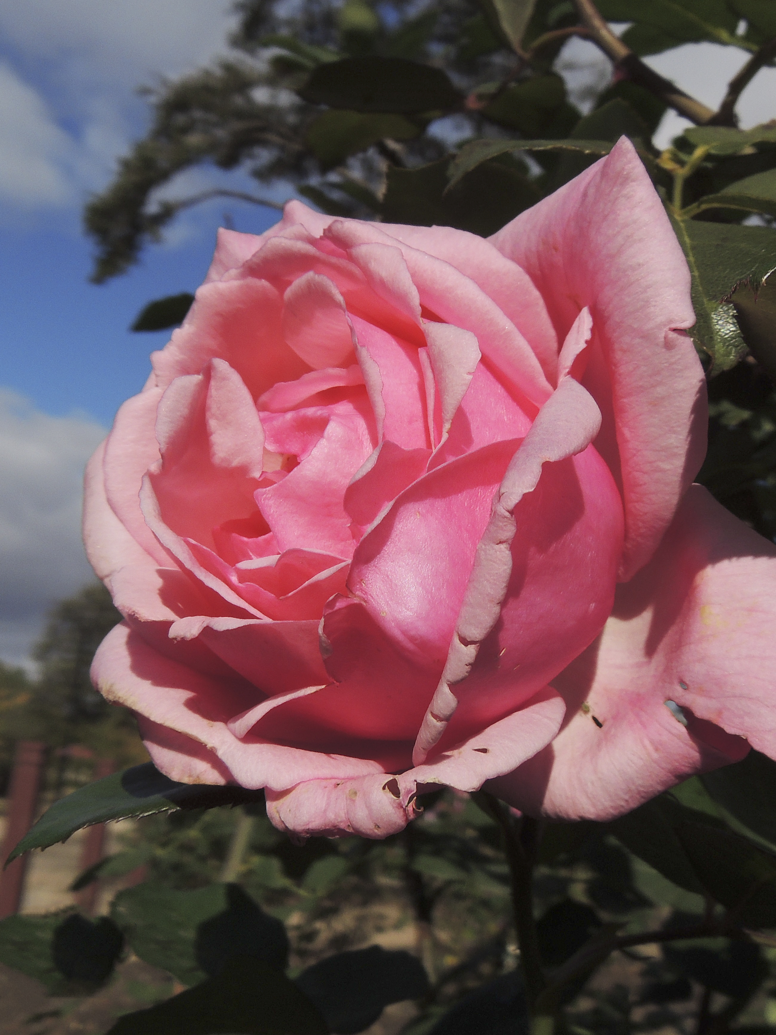 Rose 'Radiance' Hybrid Tea by Cook and Son 1908